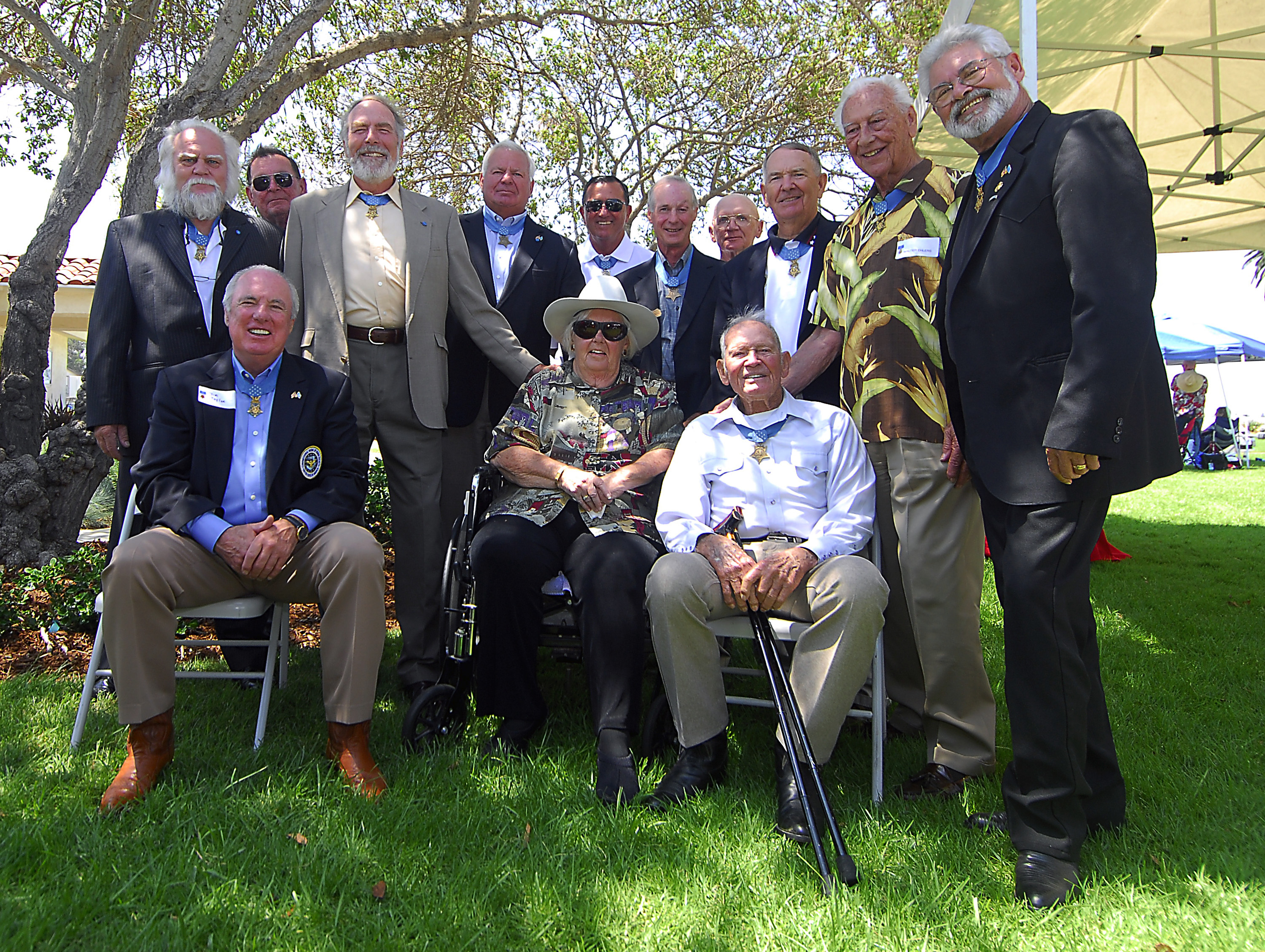 Retired Navy Lt. John Finn, sitting at bottom right, celebrates his 100th birthday with other Medal of Honor recipients at Naval Air Station North Island. Finn, the oldest living Medal of Honor recipient, was awarded the Medal of Honor for heroism during the Dec. 7, 1941 Japanese attack on attack on Pearl Harbor. Front row, left to right: James Allen Taylor; Sybil Stockdale, widow of James Stockdale; John W. Finn Back row, left to right: Leonard B. Keller; Harold A. Fritz; Drew Dennis Dix; Michael Thornton; Jay R. Vargas; Thomas R. Norris; Robert J. Modrzejewski; Walter Joseph Marm; Walter D. Ehlers; Jon R. Cavaiani